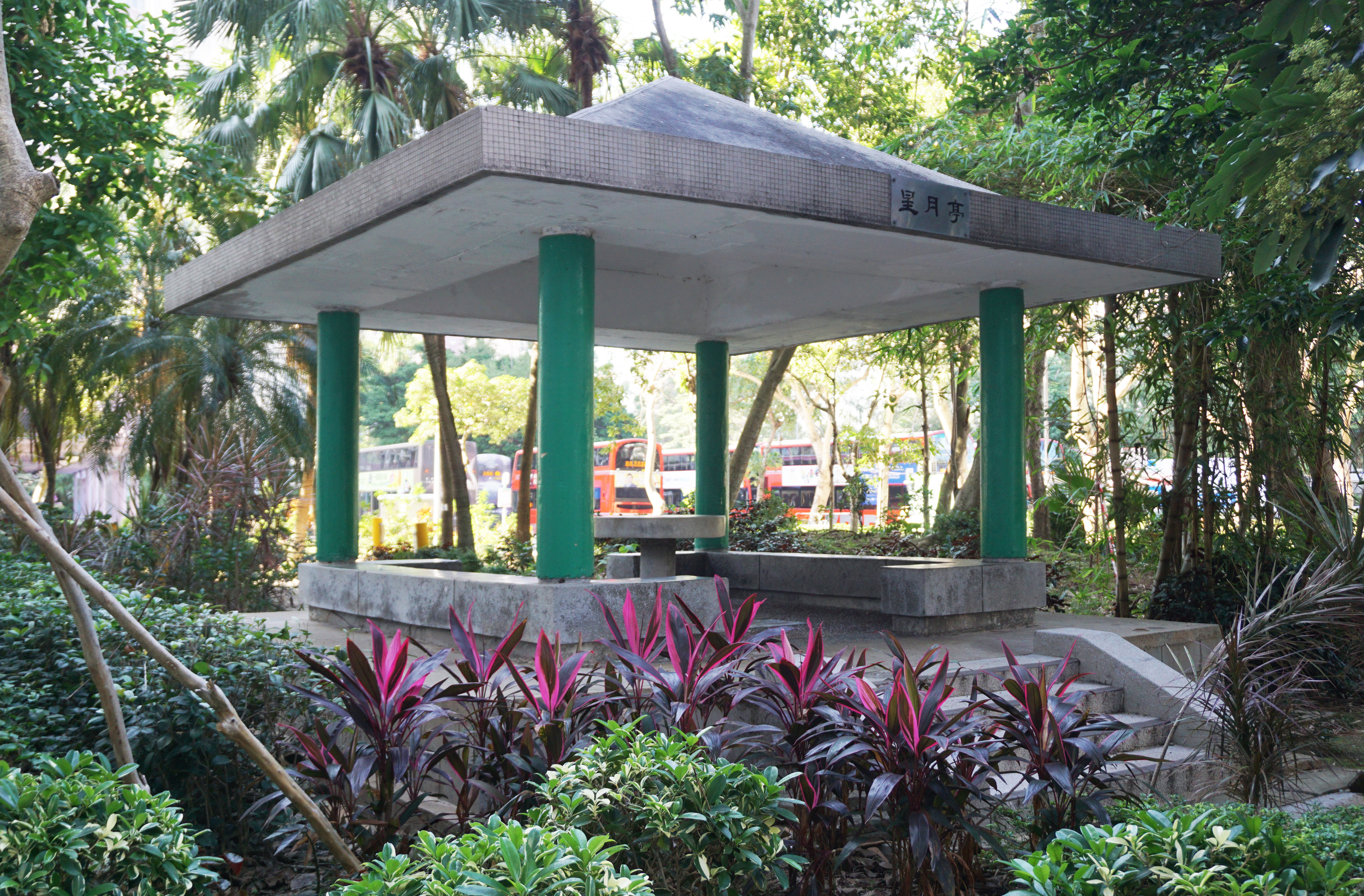 Heng On Estate in Heng On, Hong Kong.